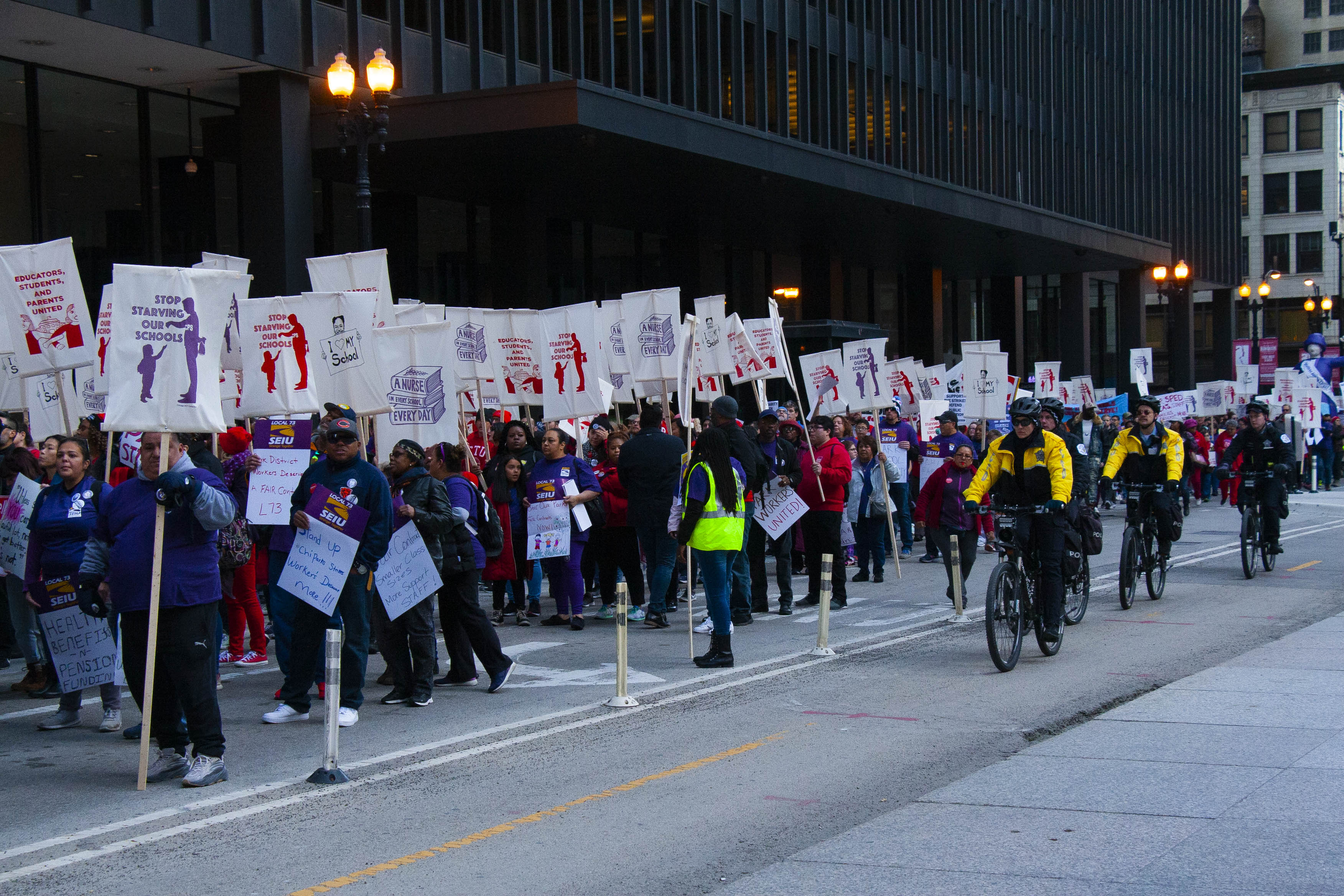 Chicago Teachers Union Rally 10-14-19_3748